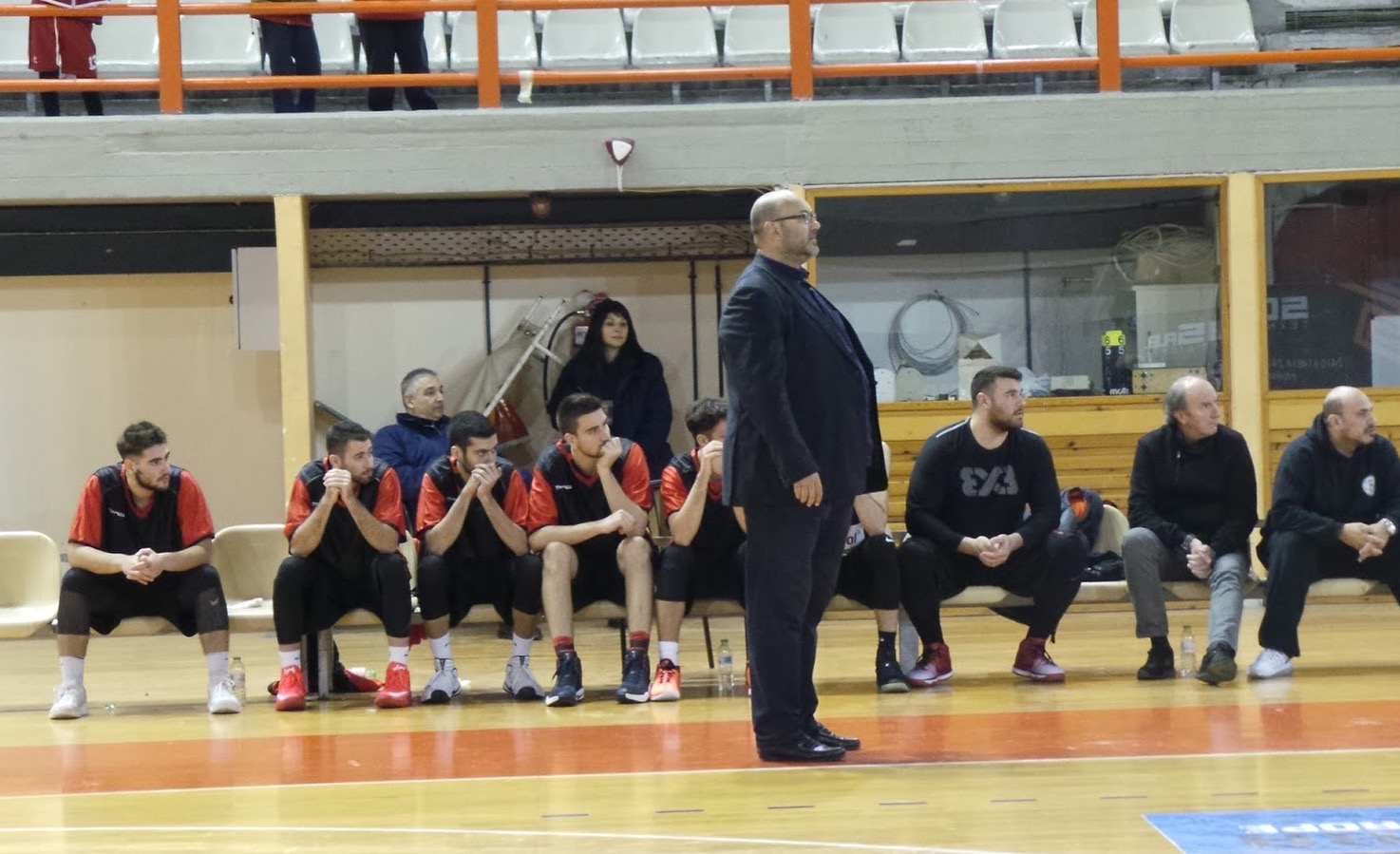 Greek A2